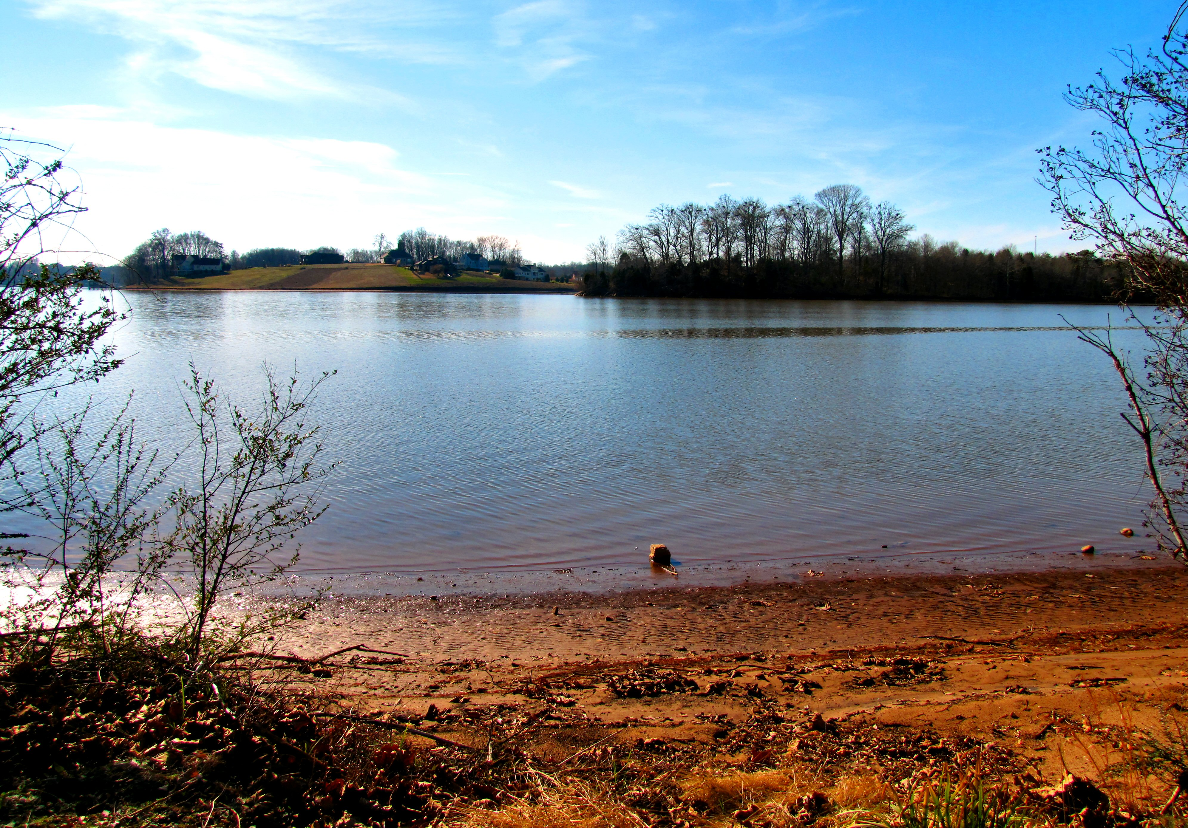 The Tellico River, viewed from near the Sequoyah Birthplace Museum in Monroe County, Tennessee, United States. This section of the river is part of Tellico Lake.